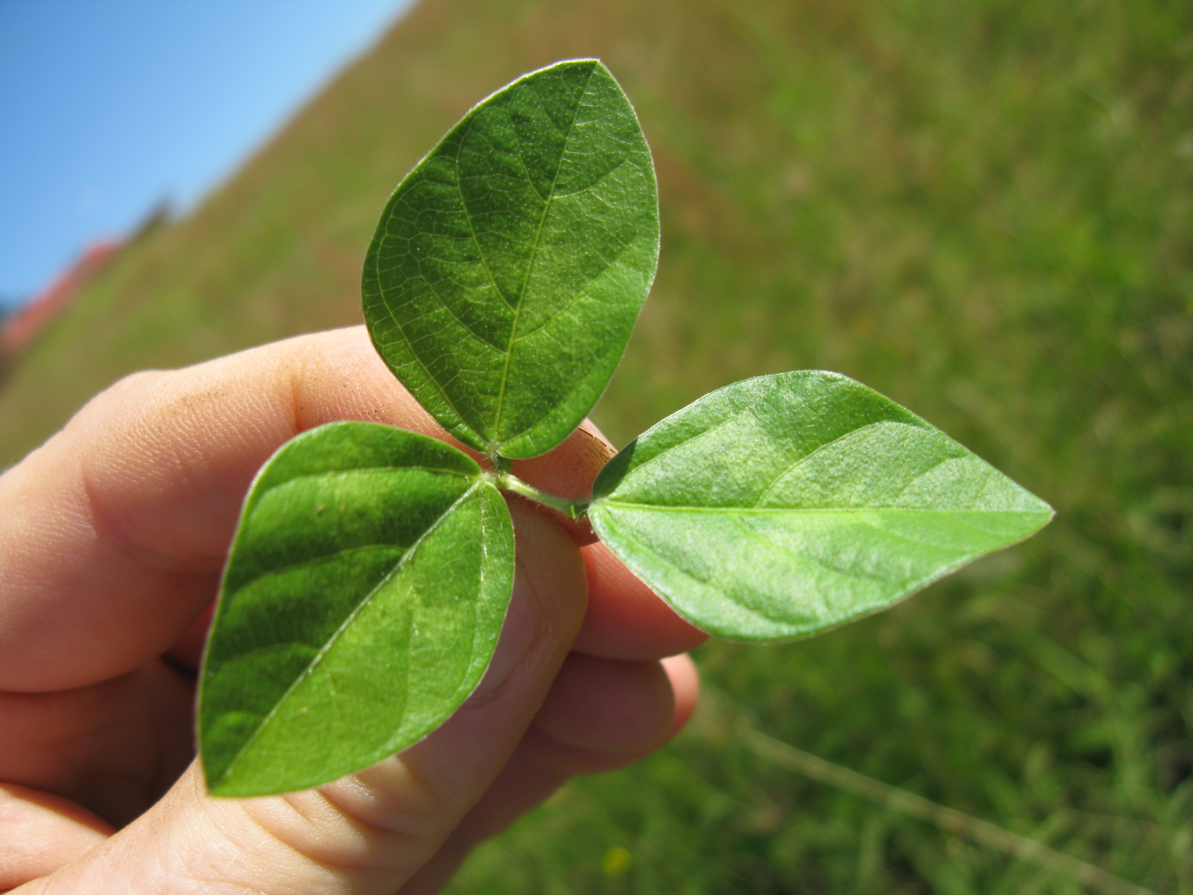 Leaves have 3 leaflets, each hairy, 1-9 cm long, round to ovate. The central leaflet has a longer stalk than the lateral leaflets. Leaf size varies with grazing pressure.